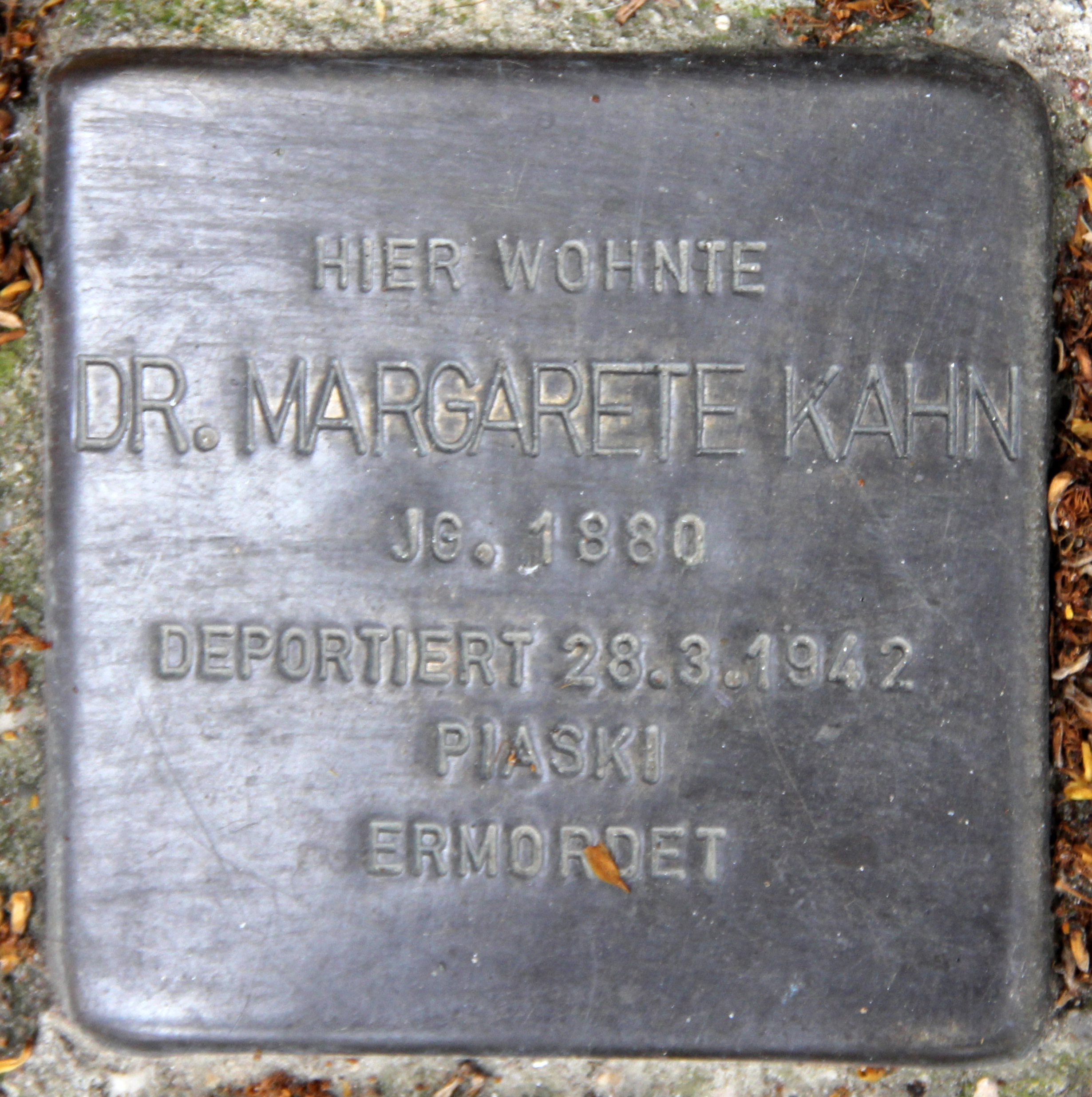 "Stolperstein" (stumbling block), Margarete Kahn, Rudolstädter Straße 127, Berlin-Wilmersdorf, Germany